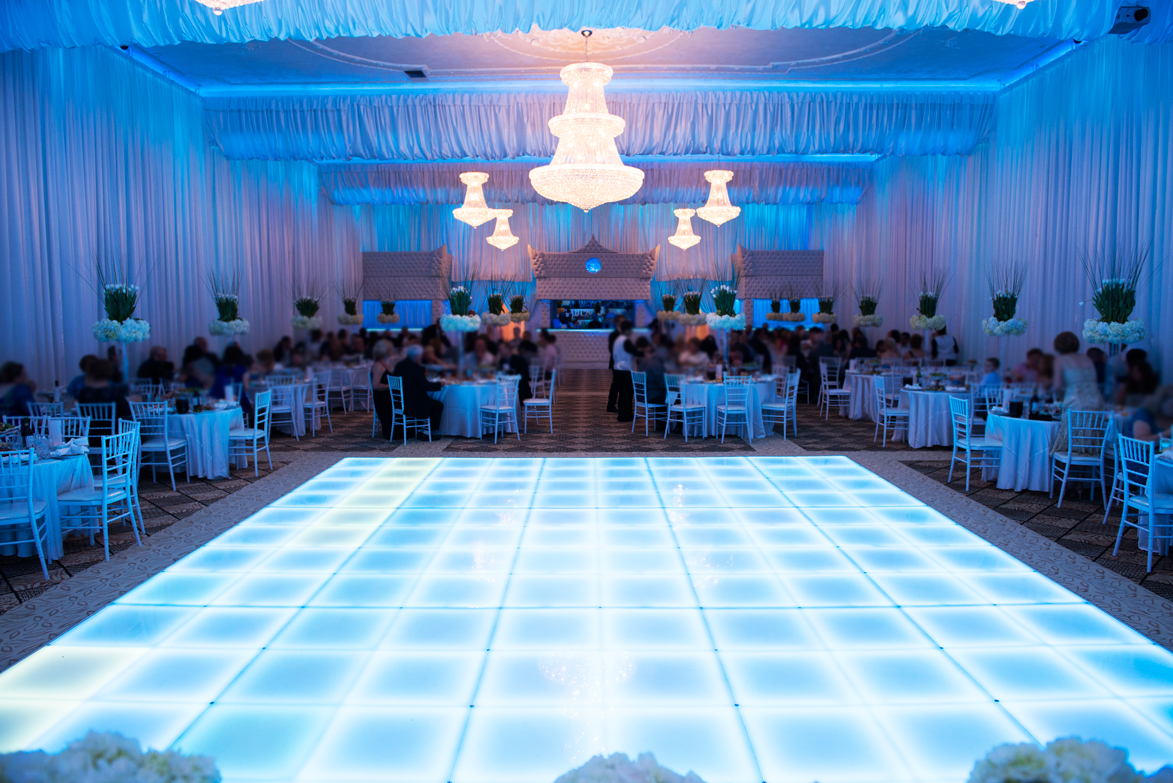 Banquet Hall for all types of occasions, wedding, birthday, baptism etc...